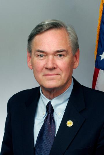 Dennis Moore, member of the United States House of Representatives, representing Kansas' 3rd congressional district.